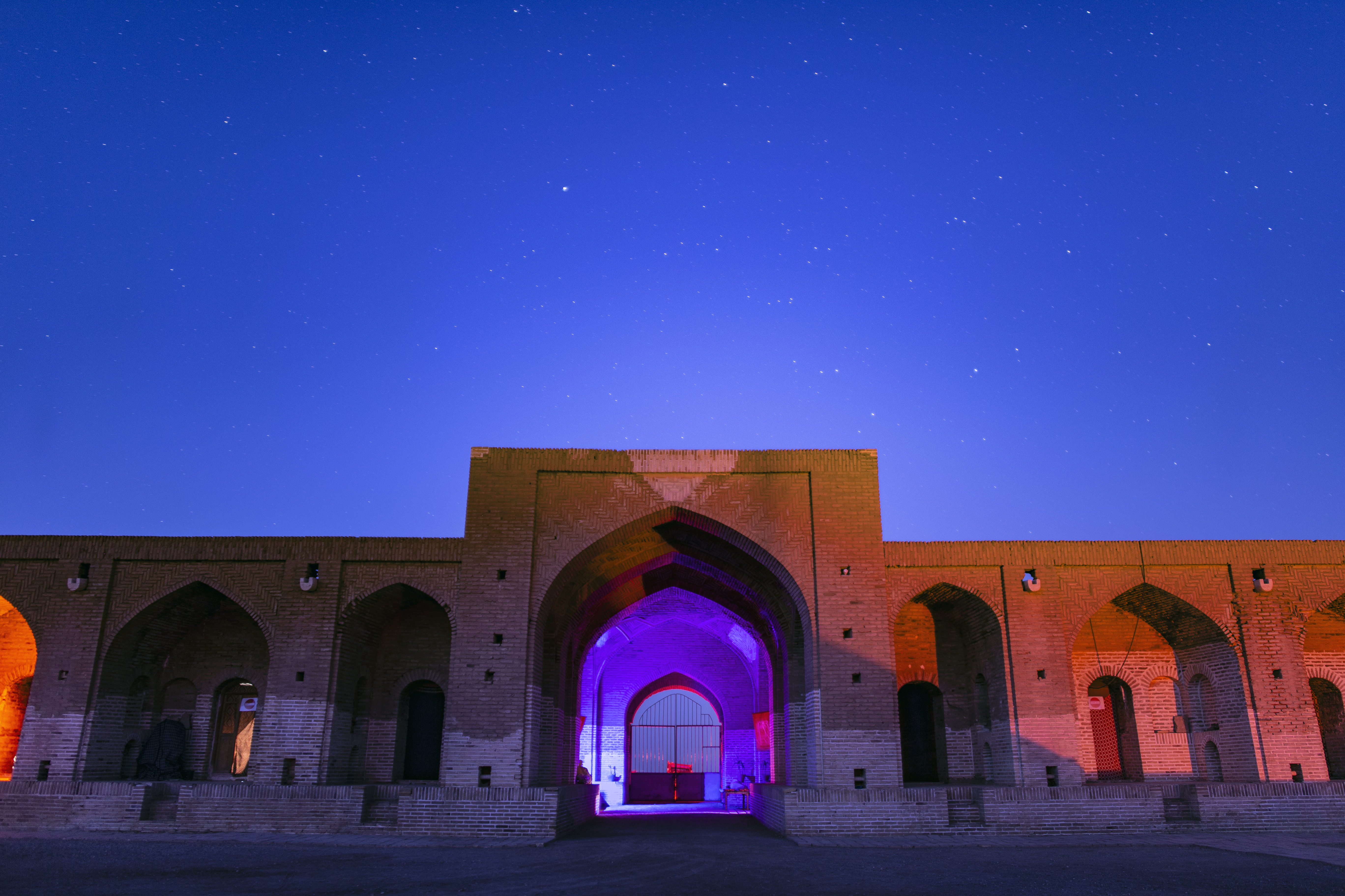 Deir-e Gachin Caravansarai is one of the greatest caravansarais of Iran which is located in the center of Kavir National Park. Its unique qualities is the reason it is called “Mother of Iranian Caravansarais”. It is located in the Central District of Qom County, 80 kilometers north-east of Qom (60 kilometers into Garmsar Freeway) and 35 kilometers south-west of Varamin. (Photo by: Mostafa Meraji, wiki loves monuments 2018)